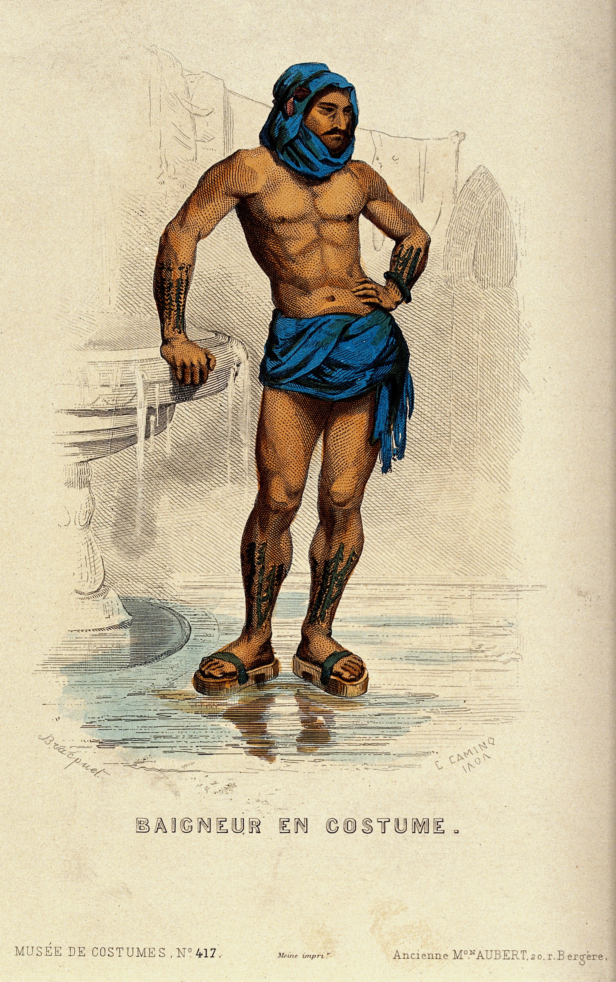 A man wearing a bathing costume. Coloured etching by C. Camino after Bracpuet. Iconographic Collections Keywords: Charles Camino; Bracpuet